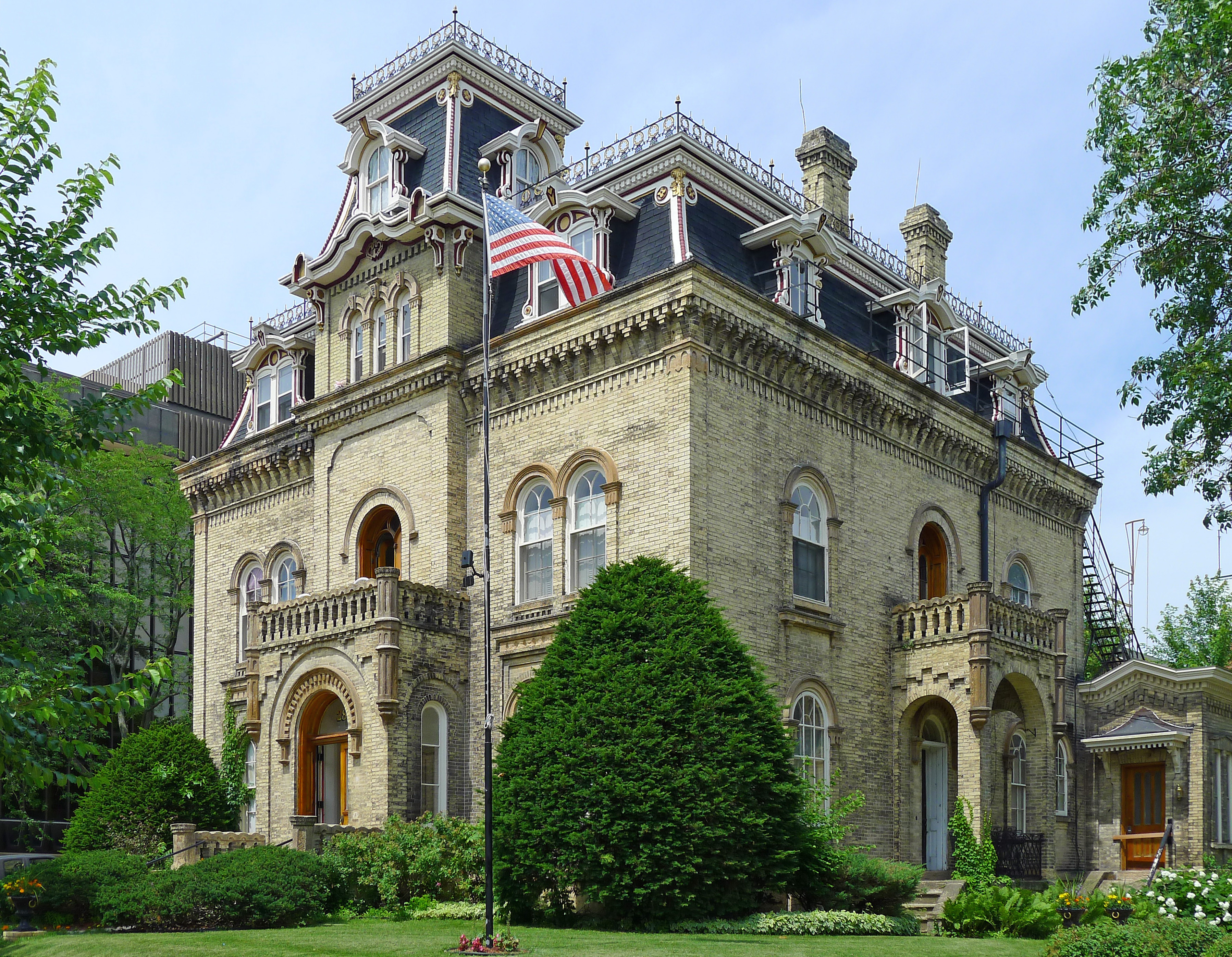 The Napoleon and Abigail Van Slyke House (1857/1870) in Madison, Wisconsin, also known as the Keenan House, was designed by August Kutzbock in the Rundbogenstil style. The Second Empire mansard roof is a later addition. The house is in the Mansion Hill Historic District. Additional information online.